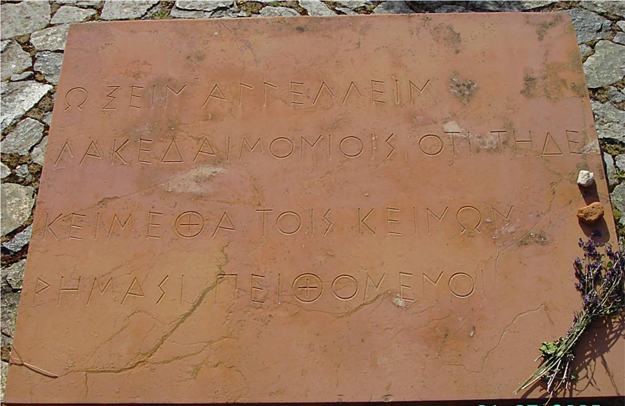 Own photo Sofie Debognies April 2005. The inscription mentions the words of the poet Simonides: Ω ΞΕΙΝ', ΑΓΓΕΛΛΕΙΝ ΛΑΚΕΔΑΙΜΟΝΙΟΙΣ ΟΤΙ ΤΗΔΕΚΕΙΜΕΘΑ ΤΟΙΣ ΚΕΙΝΩΝ ΡΗΜΑΣΙ ΠΕΙΘΟΜΕΝΟΙStranger, announce to the Spartans that hereWe lie, having fulfilled their orders.